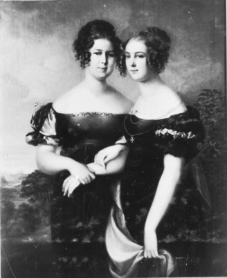 [Bildindex der Kunst und Architektur]